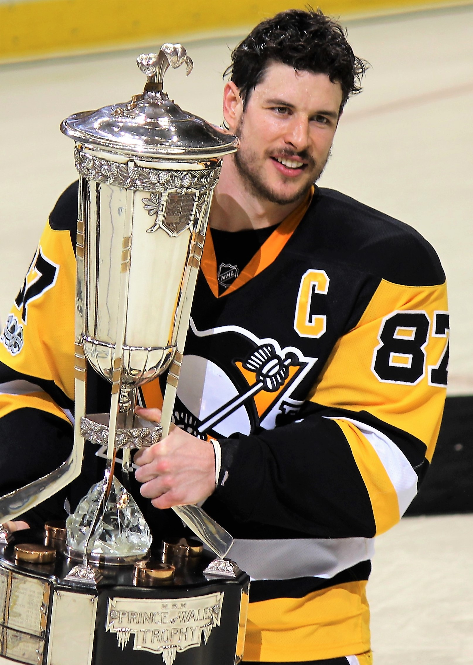 Pittsburgh Penguins captain Sidney Crosby accepts the Prince of Wales Trophy following the Pens double overtime win over the Ottawa Senators in game 7 of the Eastern Conference Final, May 25, 2017, at PPG Paints Arena in Pittsburgh, PA.